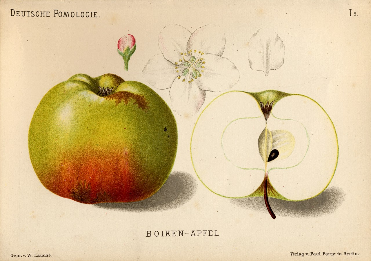 Illustration 5 from Deutsche Pomologie - Aepfel Apple cultivar shown: Boiken-Apfel